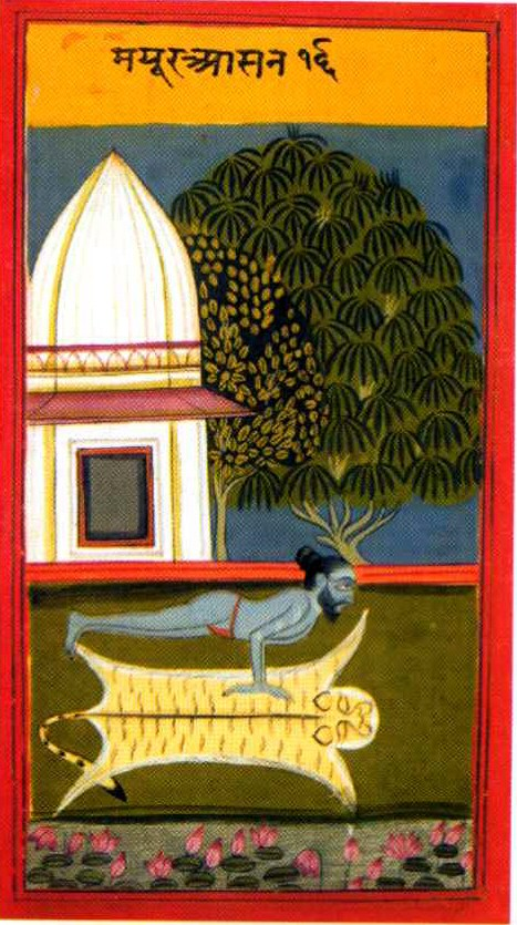 Illustration of Mayurasana peacock balancing yoga pose from manuscript of, 1830.